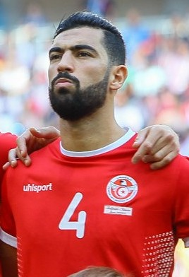 Tunisia national football team